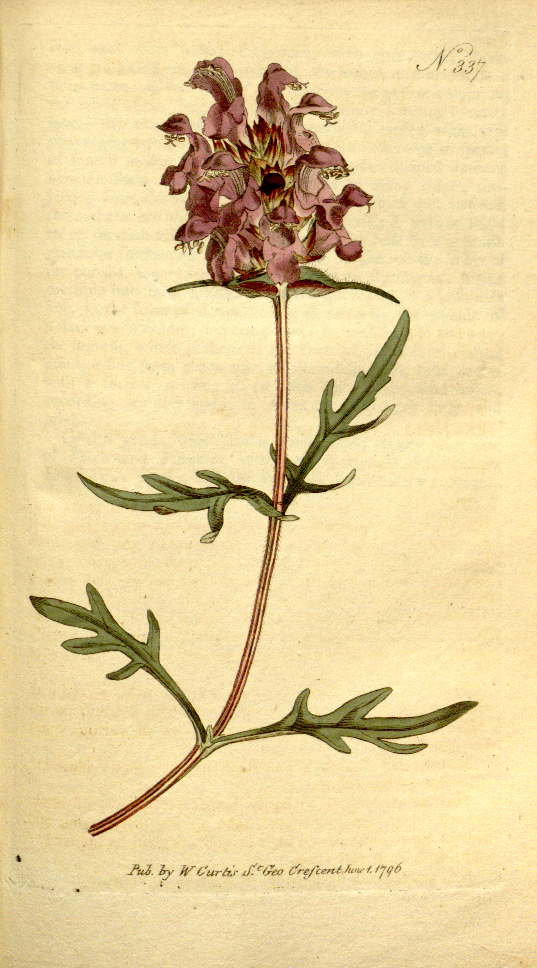 This is a plate from The Botanical Magazine, Volume 10.